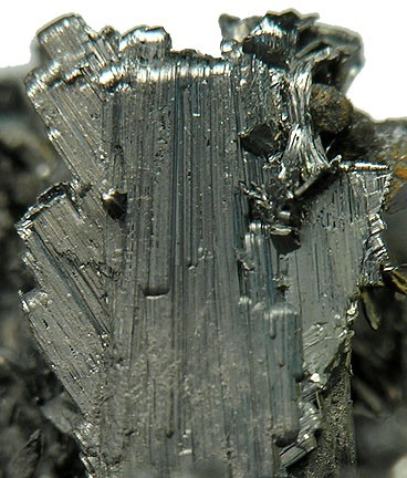 Franckeite (Var.: Potosíite) Locality: San José Mine, Oruro City, Cercado Province, Oruro Department, Bolivia (Locality at ) Size: 9 x 6.8 x 2.7 cm. From the new find of 2004, this specimen hosts two of the rarest sulfosalts in the world. This specimen is a very attractive, incredibly rare, superb quality, crystallized specimen of the triclinic lead, antimony, iron, tin sulfosalt Potosiite consisting of several, extremely rare, highly lustrous, heavily striated, tabular blades (some are twinned) of Potosiite measuring up to 7 mm (!) sitting atop crystallized and the equally rare triclinic lead, tin, iron, antimony sulfosalt Franckeite. For those of you who are unaware, the crystals of Potosiite on this specimen are EXCEPTIONALLY LARGE for the species. Before these new specimens were discovered, some of the largest known crystals of Potosiite were massive, uncrystallized, granules less than 1 mm. in most cases. This new find has completely redefined the species of Potosiite. The crystals on this specimen are NOT micros, you can clearly see them with the naked eye and they are very distinct. These are undoubtedly some of the LARGEST KNOWN POTOSIITE CRYSTALS IN EXISTENCE. The Potosiite has been positively identified through X-ray Diffraction. This specimen is from a newly opened vein in this historic mine. Ex. Brian Kosnar.